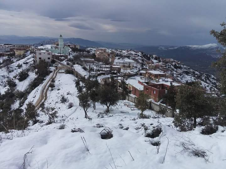 Ighil bouchene 1.jpeg